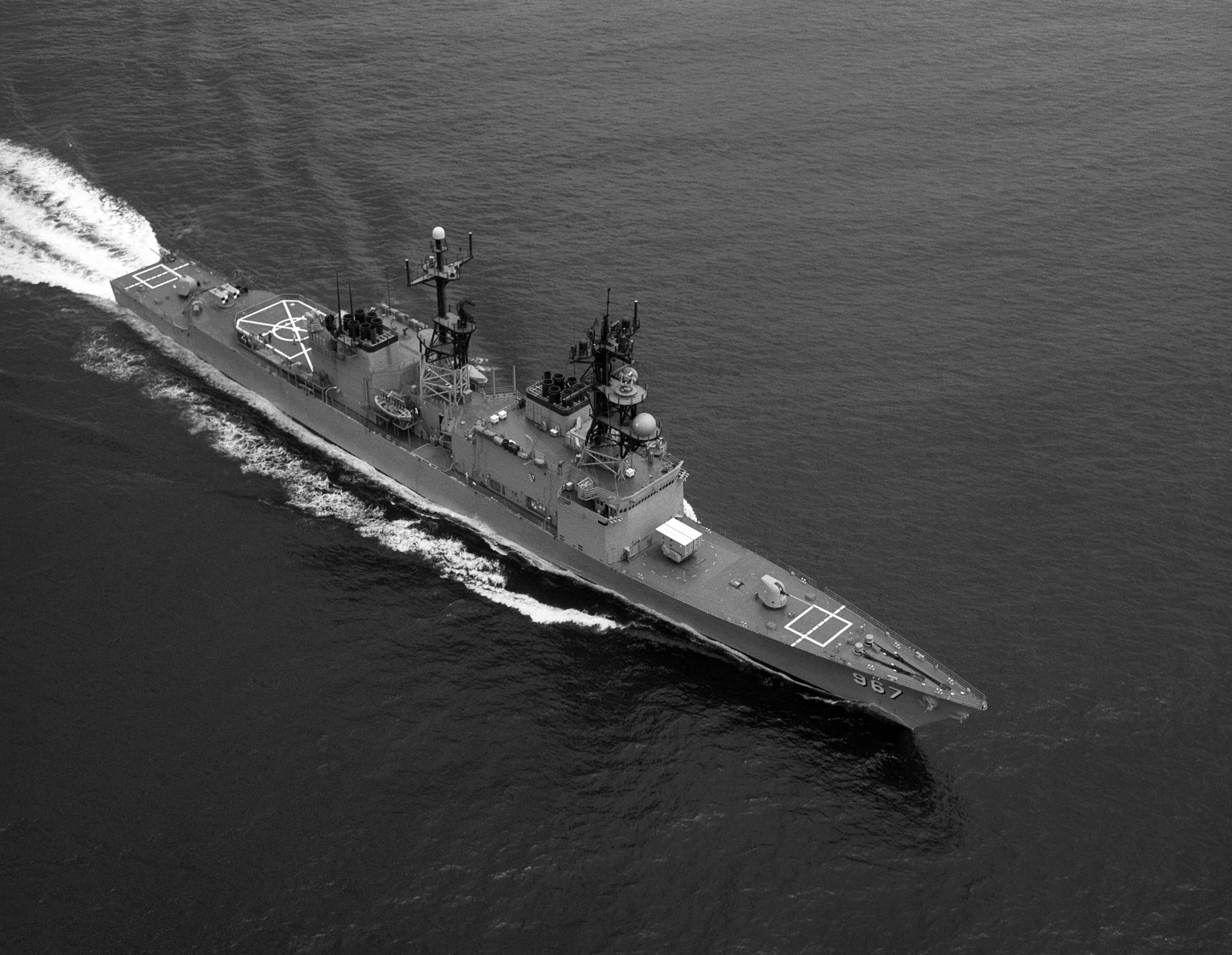 An aerial bow starboard side view of the US Navy (USN) Spruance Class Destroyer USS ELLIOT (DD 967) at sea.